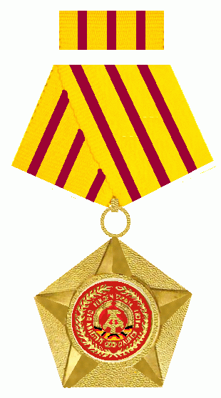 Combat Order "Of Merit for the Nation and Fatherland" (three classes), here in gold (GDR).